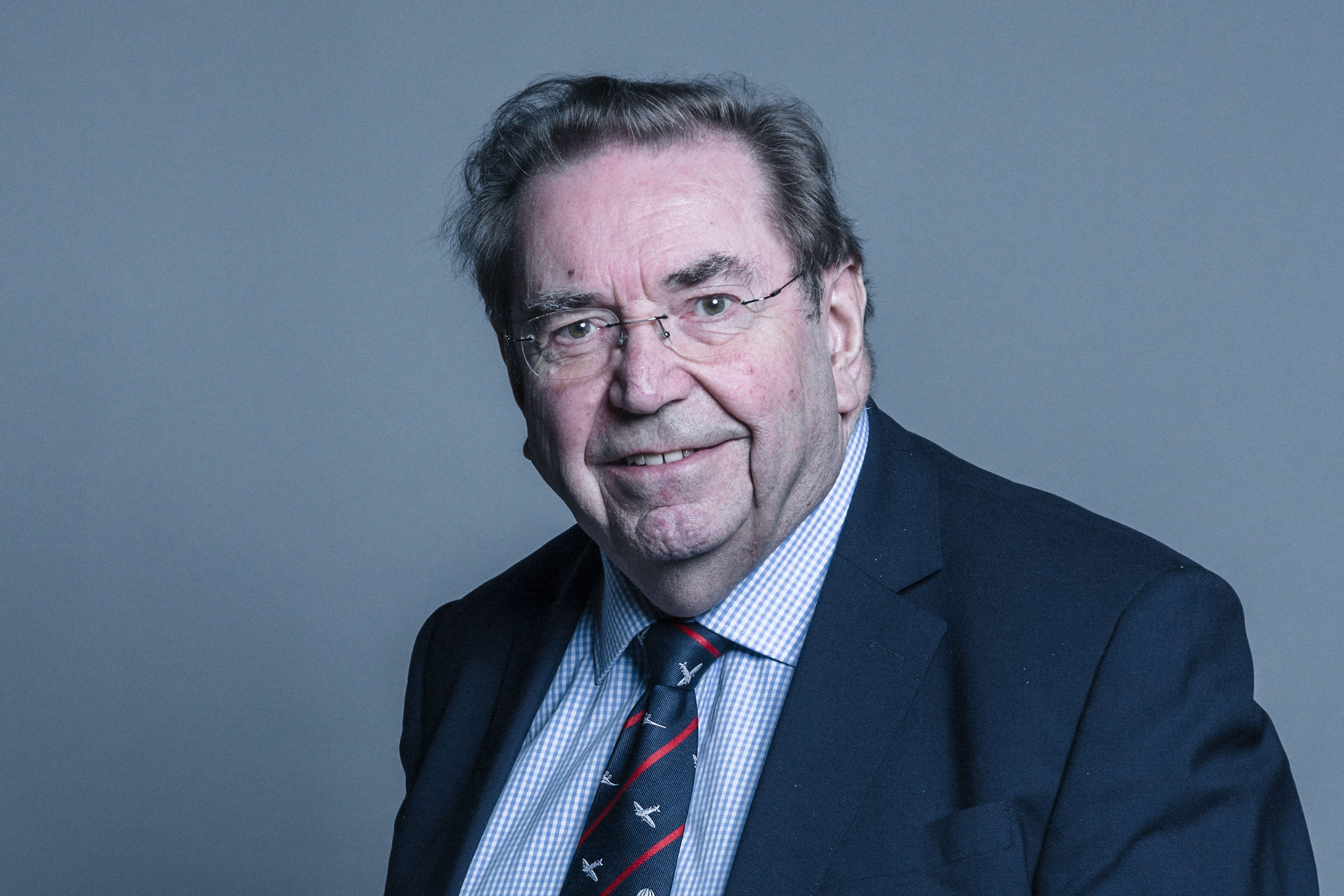 Official portrait of Lord Chidgey